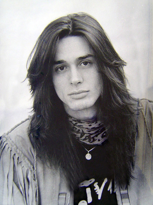 Bane Jelic in 1990